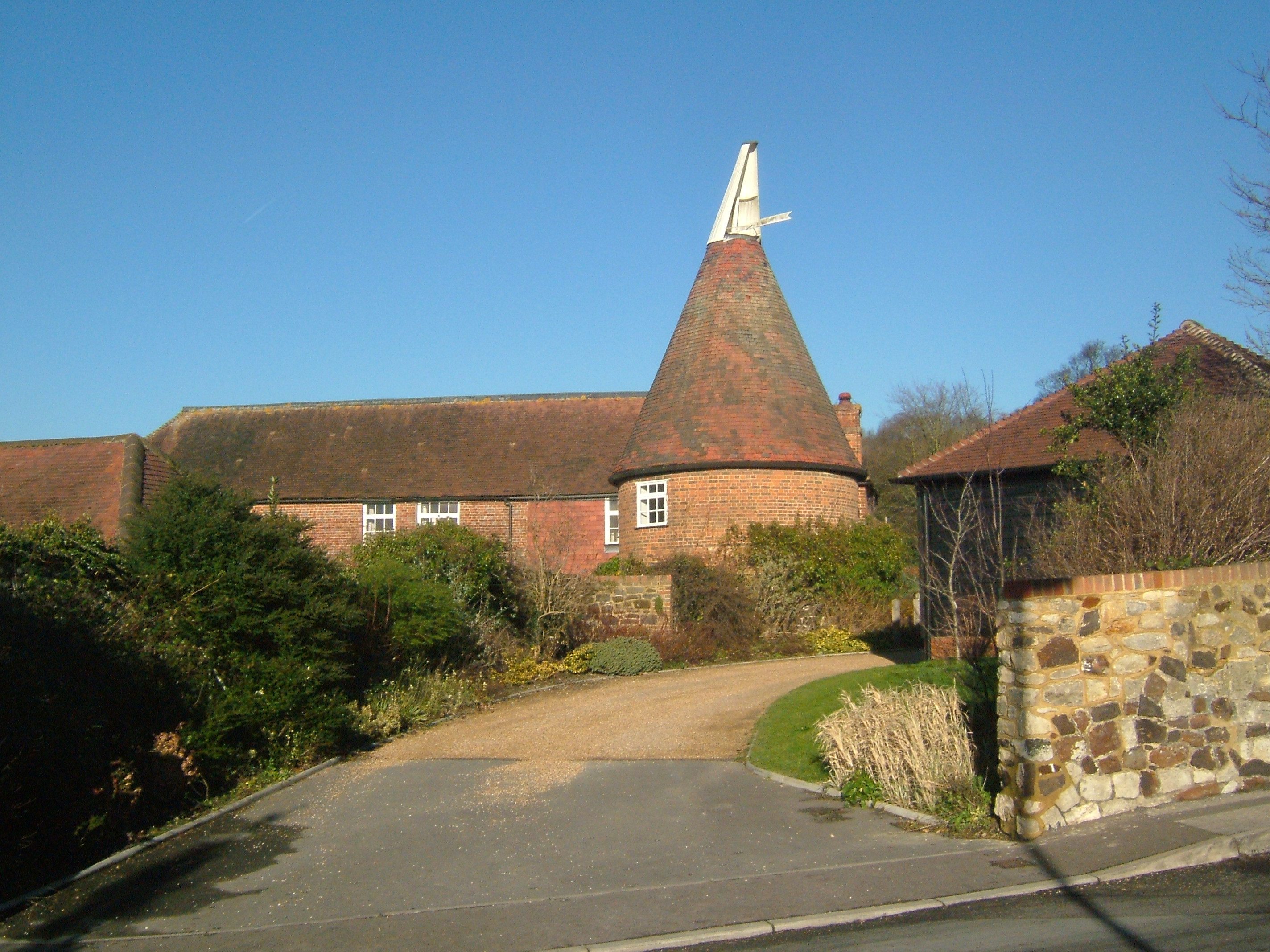 Wrotham in Kent, is a parish in Kent, England, south of Gravesend. Converted Oast House - Google Maps - Google Earth